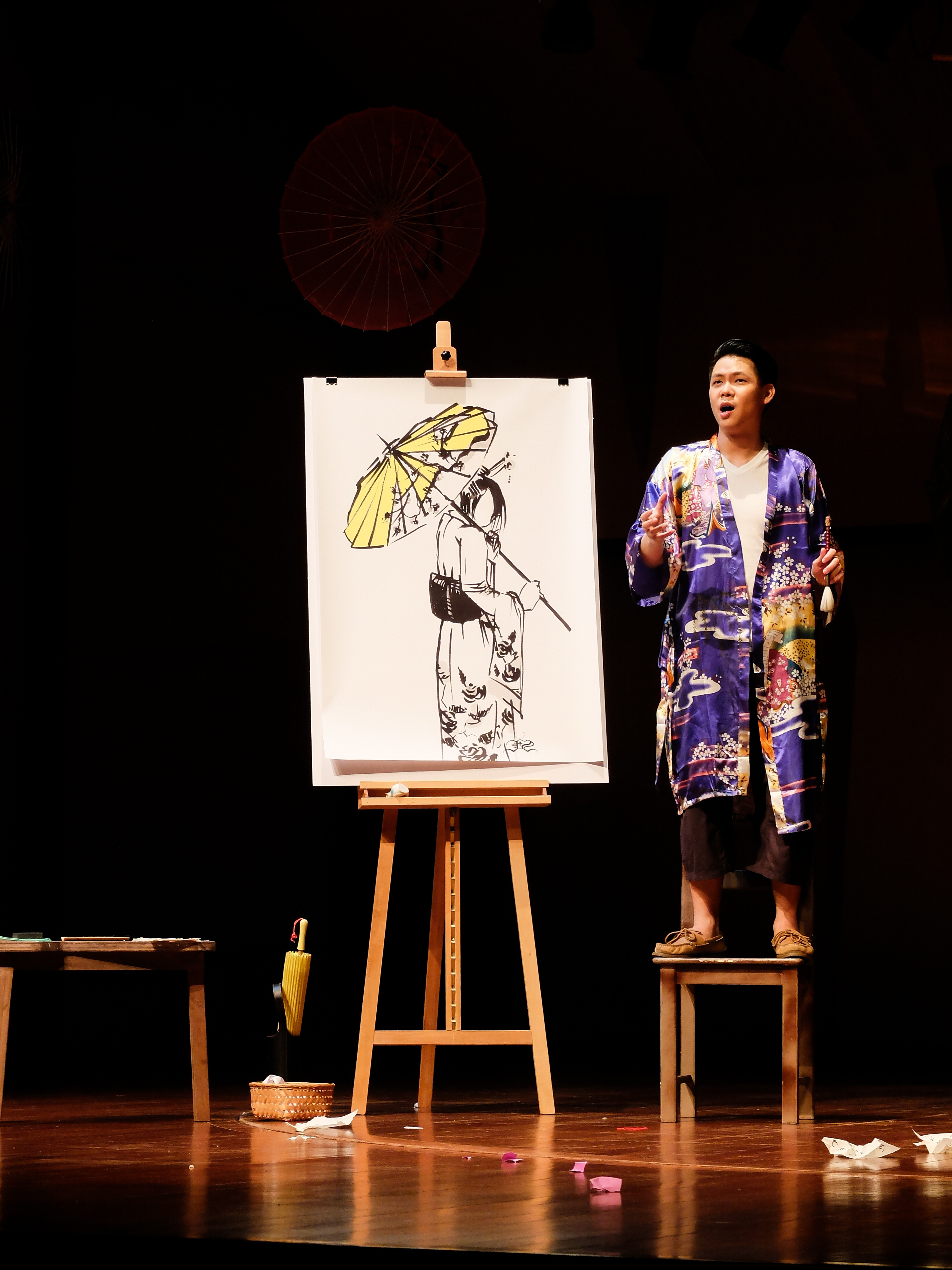 Jeremy Koh as Kornelis in Camille Saint-Saëns' opera, La princesse jaune